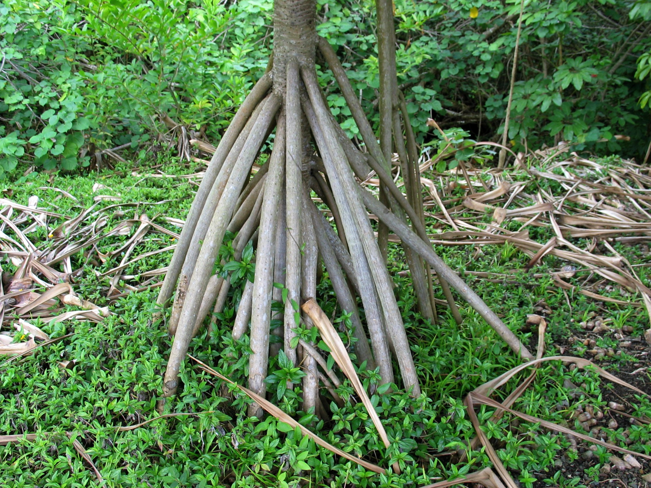 Hala or Screwpine Pandanaceae Indigenous to the Hawaiian Islands Hoʻomaluhia Botanical Garden, Oʻahu The aerial root tips called "scales," were pounded, juice strained and heated by early Hawaiians. They were mixed with eucalyptus in a pūloʻuloʻu (steam bath) to treat colds. A mixture of aerial roots with kō (sugar cane) and other plants was used as a tonic for mothers weakened by child birth. The mixture was also given for chest pains. When mixed with other plants, the roots were used in urinary tract infections, low energy and red eyes. The tips are said to be rich in vitamin B. The keys (fruits) of the form hala pia were used medicinally. NPH00003